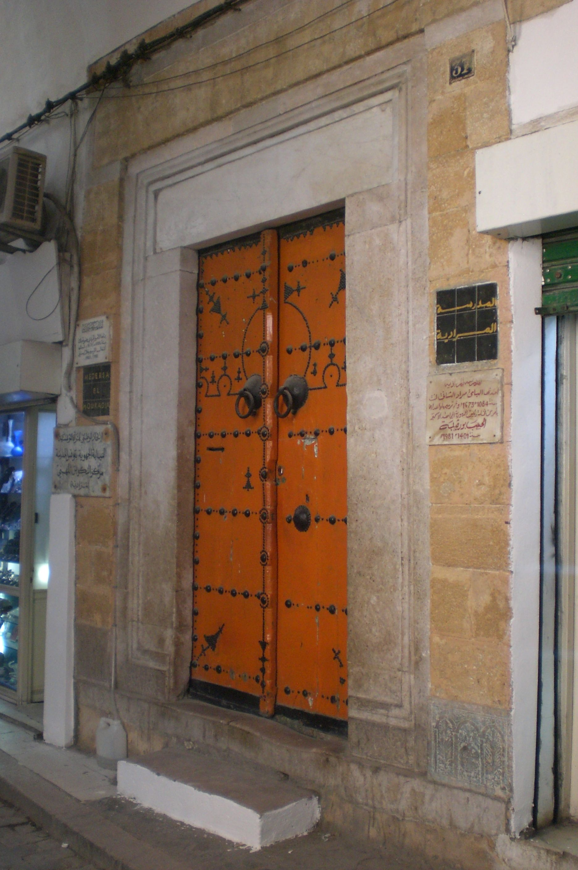 The Entree of Medersa Mouradia in Tunis